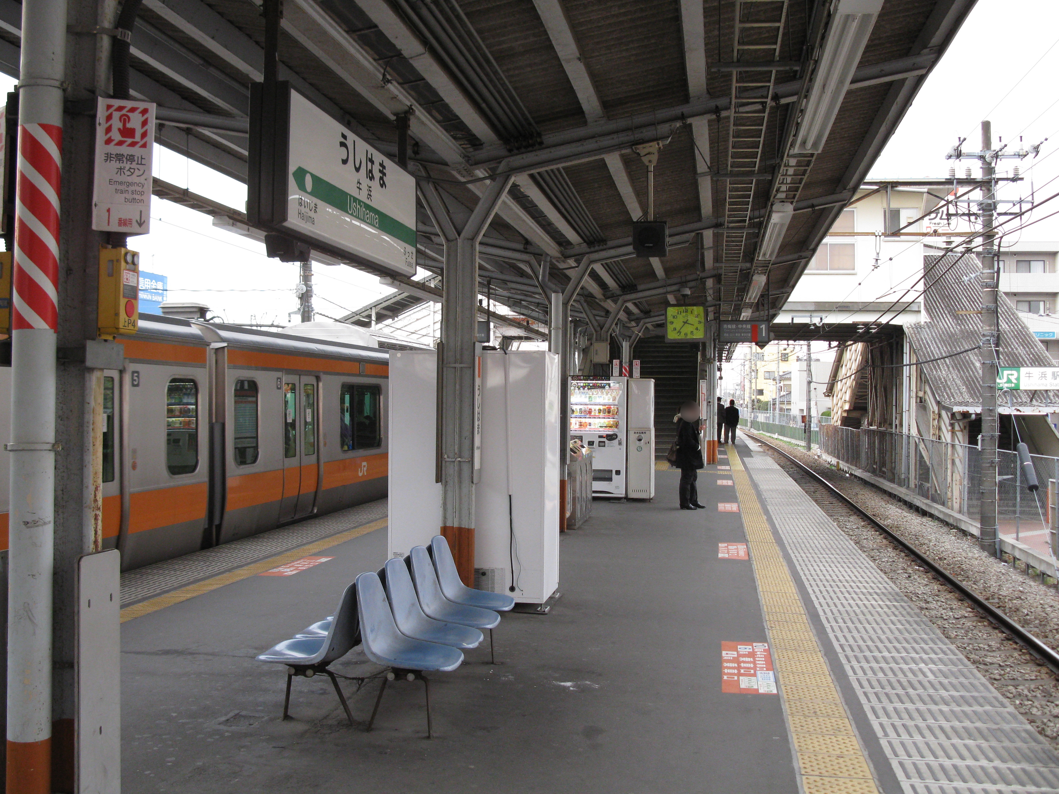 Ushihama Station platform (East Japan Railway Ōme Line)